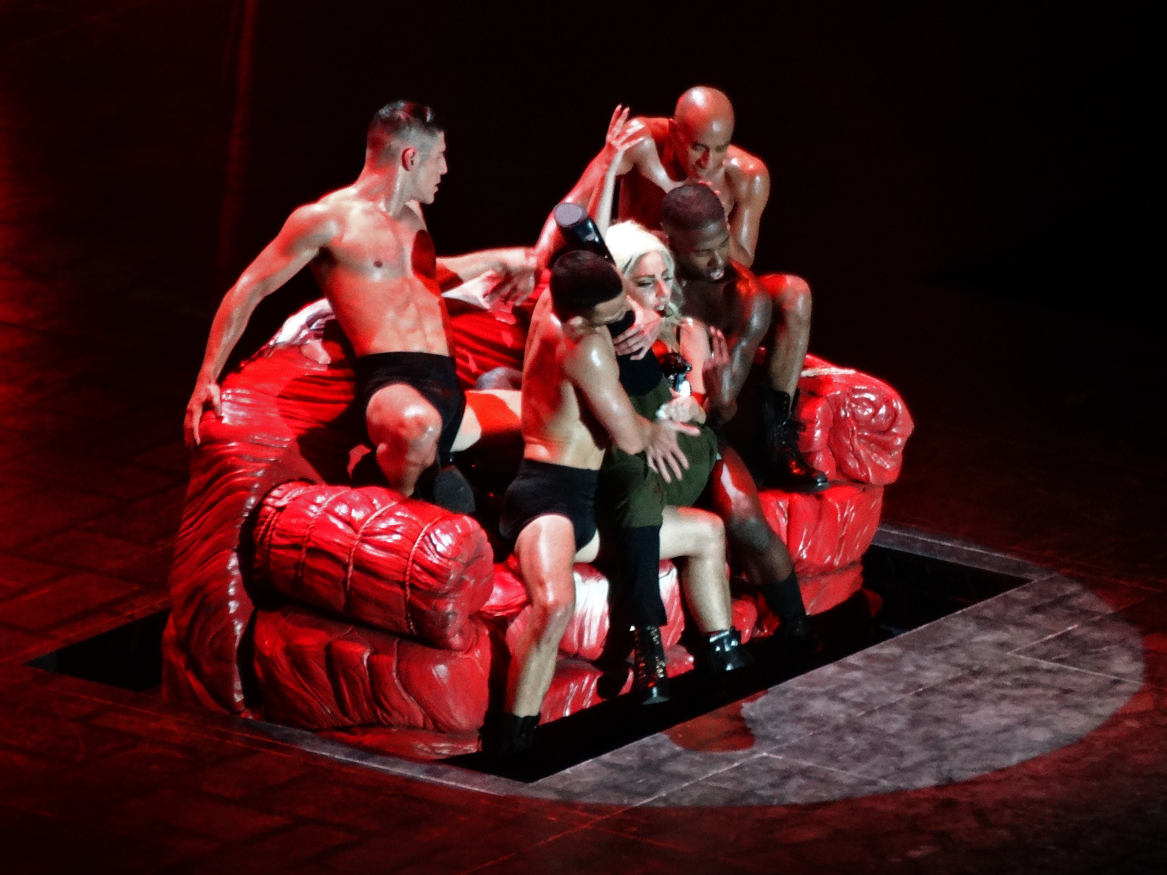 Lady Gaga performing "Alejandro" on The Born This Way Ball Tour.